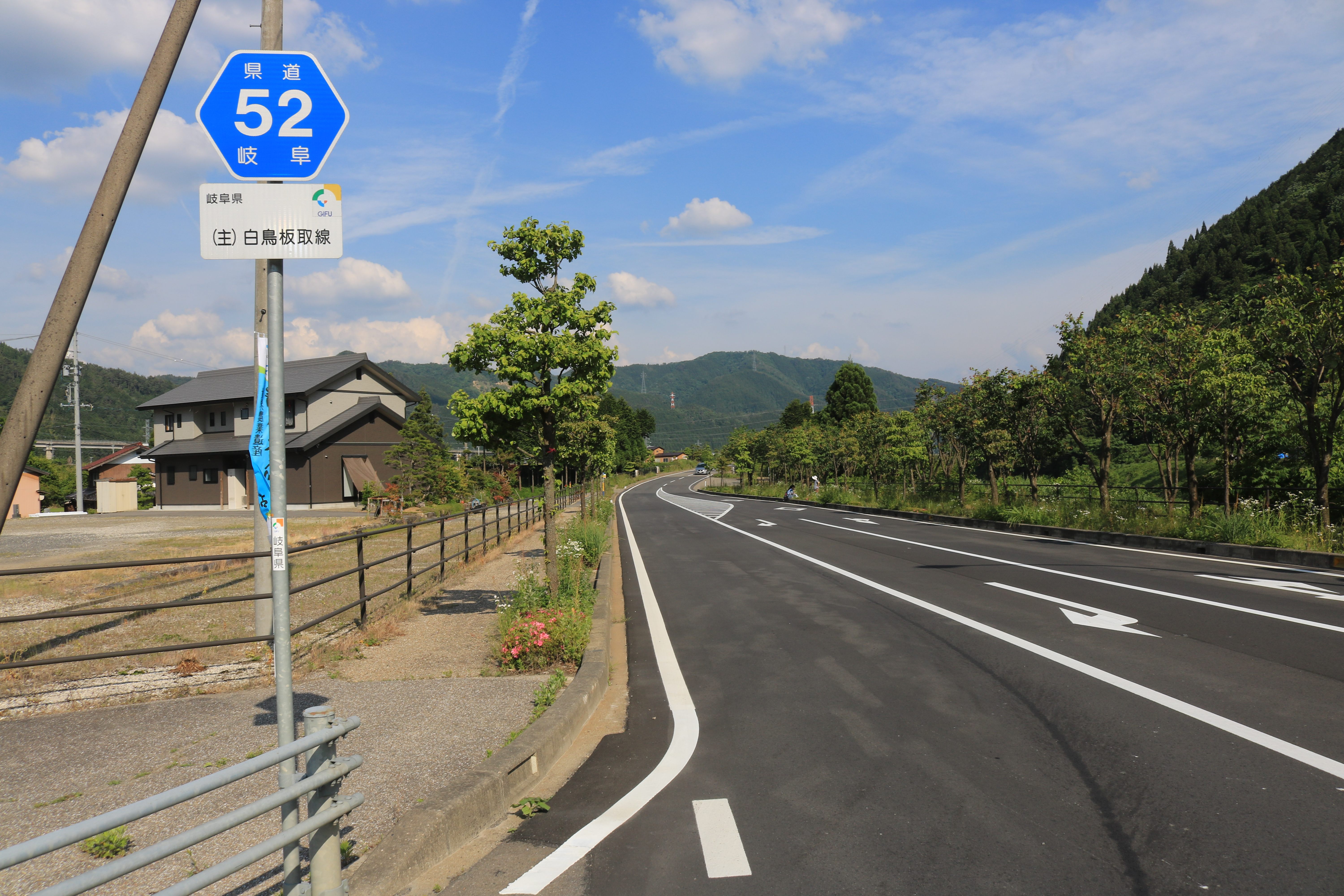 Gifu Prefectural Road Route 52 in Oshima, Shirotori, Gujo, Gifu prefecture, Japan.